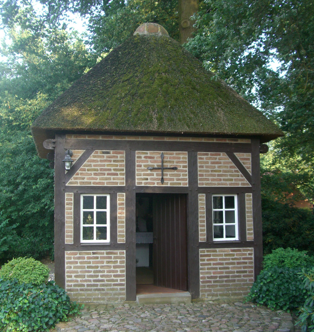 Pestkapelle in Gemen (ca. 1650)